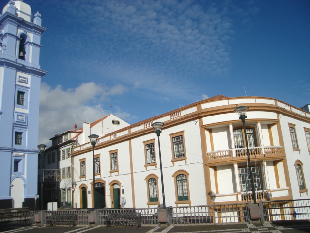 Destacamento Fiscal de Aangra do Heroísmo